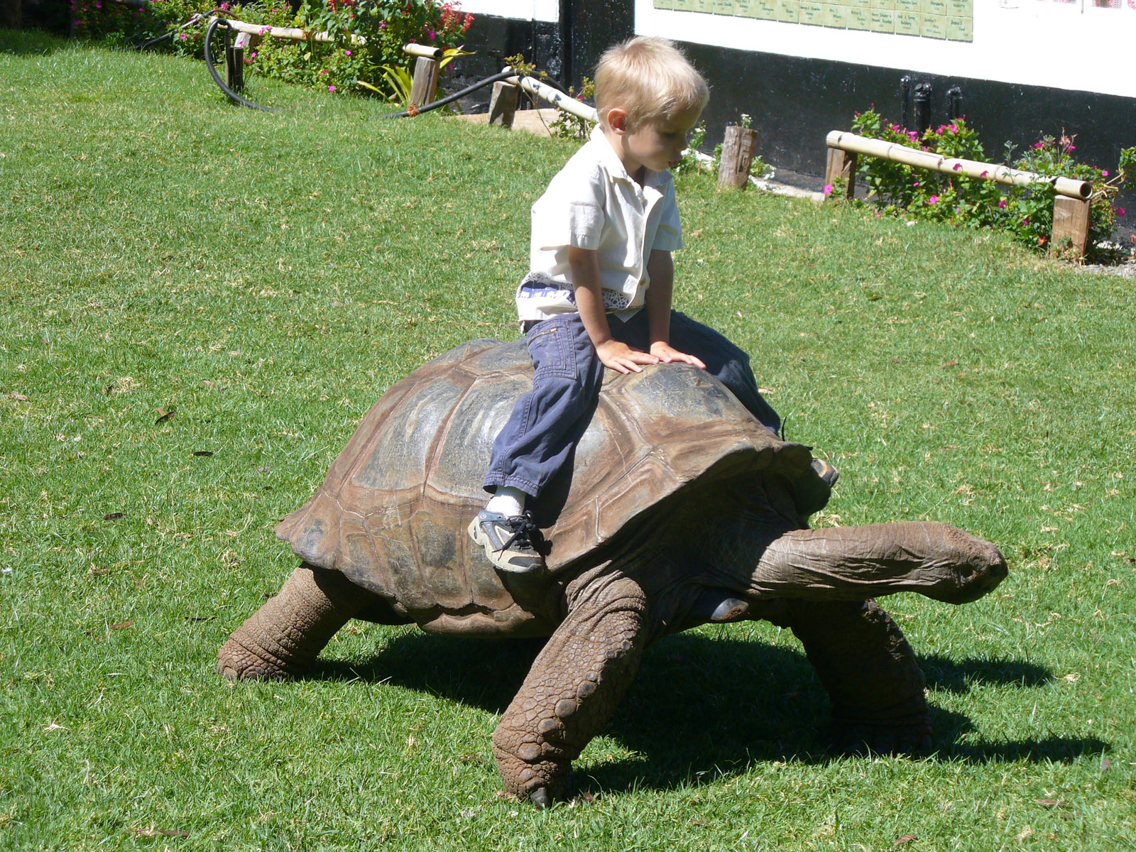 I took this photo myself. The Aldabra Giant Tortoise tortoise is a permanent resident at the Mount Kenya Wildlife Conservancy - Chuck @ (talk) 16:15, 1 June 2008 (UTC)